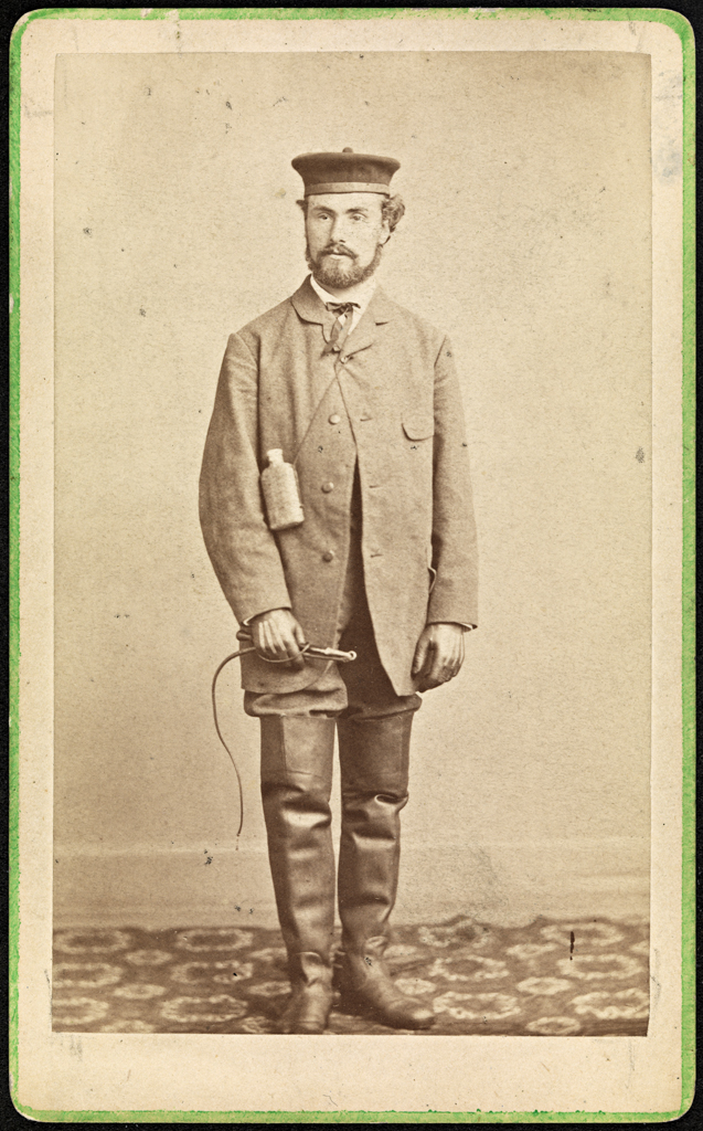 Tittel / Title: Portrett av Johan Svendsen (1840-1911) Motiv / Motif: Visittkort / Carte de visite. Dato / Date: 1860-årene Fotograf / Photographer: Wilh. Cappelen (Christiania) Sted / Place: Oslo Eier / Owner Institution: Nasjonalbiblioteket / National Library of Norway Lenke / Link: Bildesignatur / Image Number: blds_03876